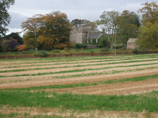 An autumn view Across a field, towards Balbegno Castle. The castle is an L-plan fortified house dating from the 15th century, with later appendages now being used as a farmhouse.